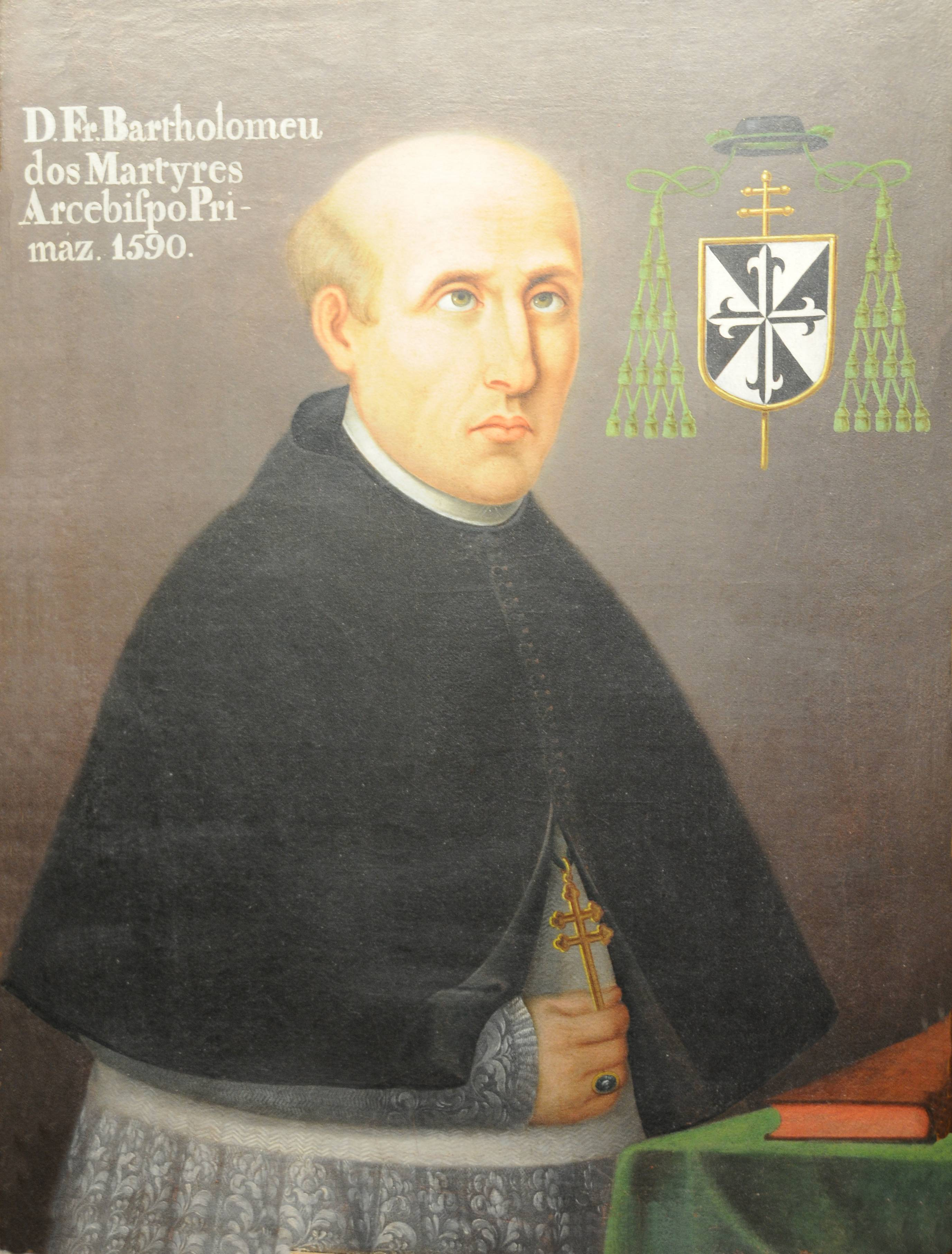 Painting of Frei Bartolomeu dos Mártires, in São Marcos Hospital, Braga, Portugal